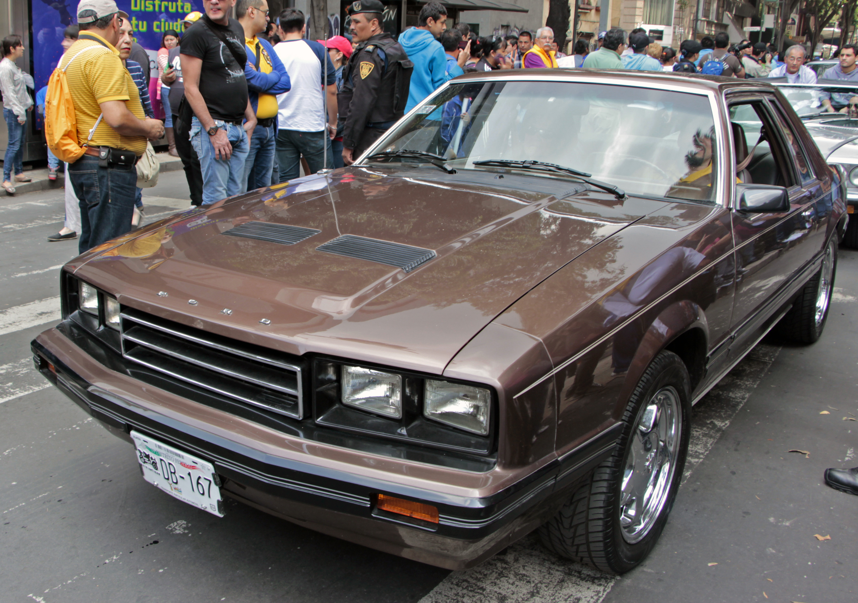 1982 or 1983 Mexican market Ford Mustang. In Mexico the early third generation Mustang used some Capri body parts, presumably to help amortize the tooling. At a classic car parade in Mexico City.